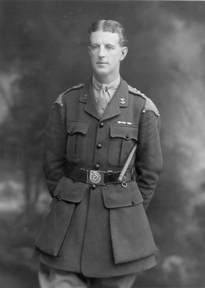 Edward "Fruity" Metcalfe (1887-1957), Army major and equerry to the Duke of Windsor. Photo by Bassano Ltd. Bromide print, 1919.